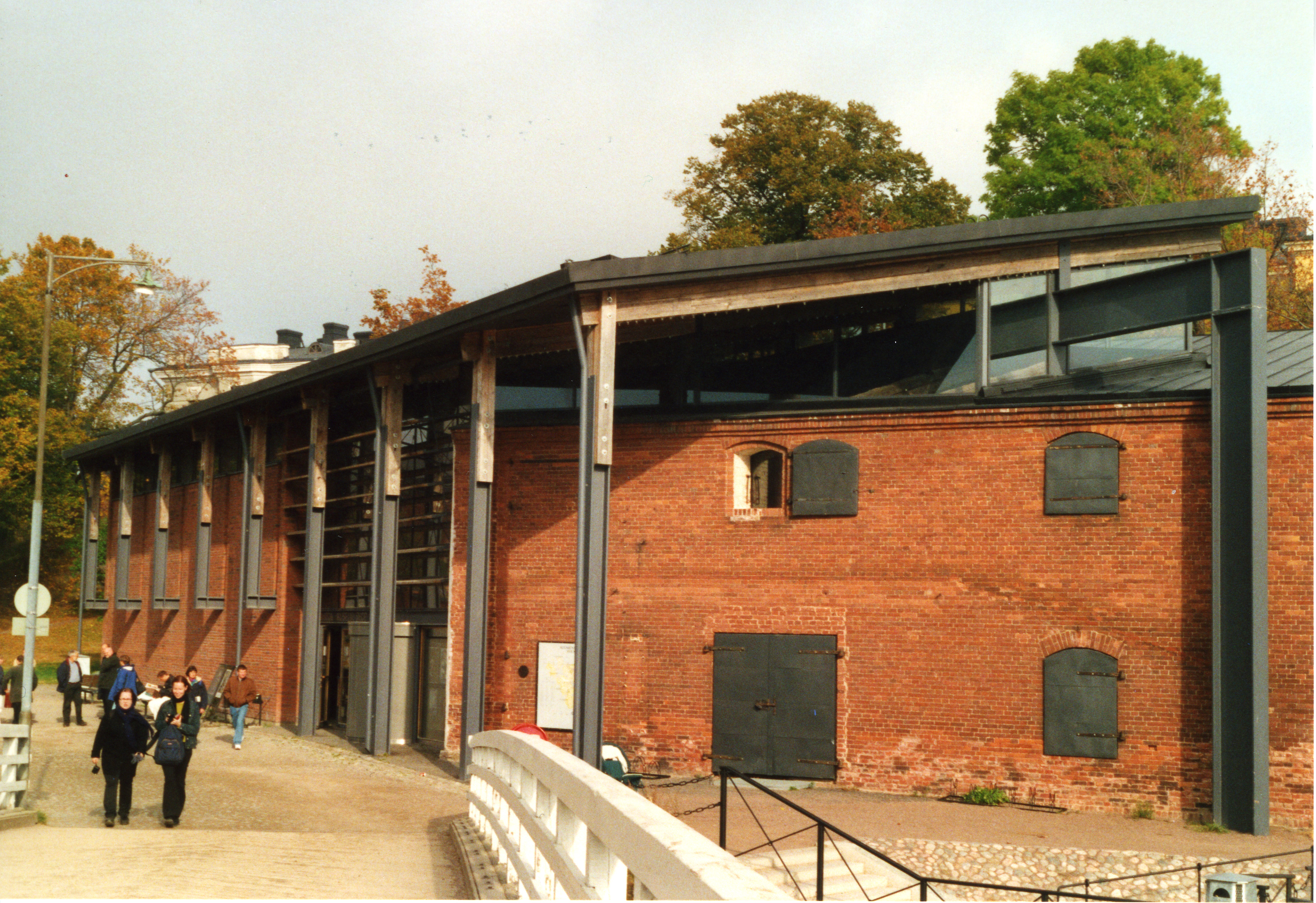 Helsinki Suomenlinna, a museum Winter 2001 Photo by Frieda